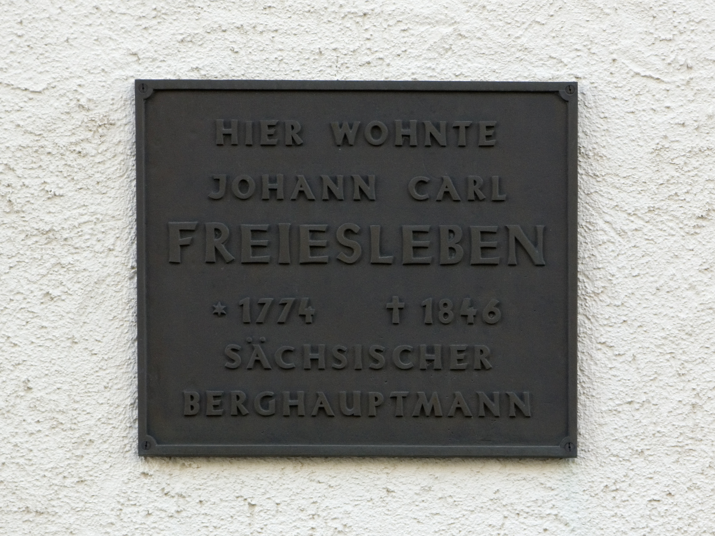 Johann Carl Freiesleben (Saxon miner and jurist), plaque at his house in Freiberg (address: Untermarkt 7)